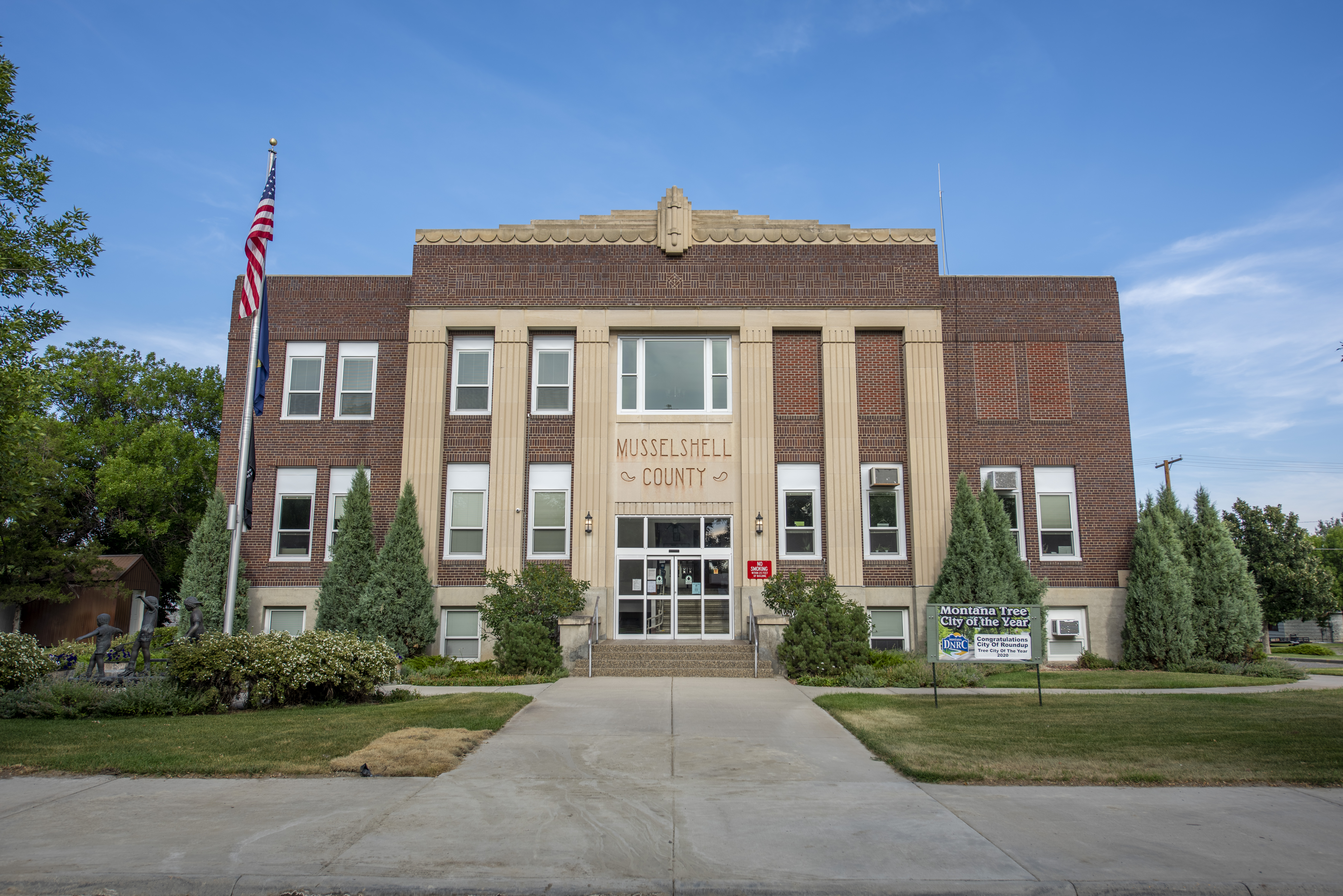 Photograph of the Musselshell County Courthouse in Roundup, Montana. Image taken in July 2020.